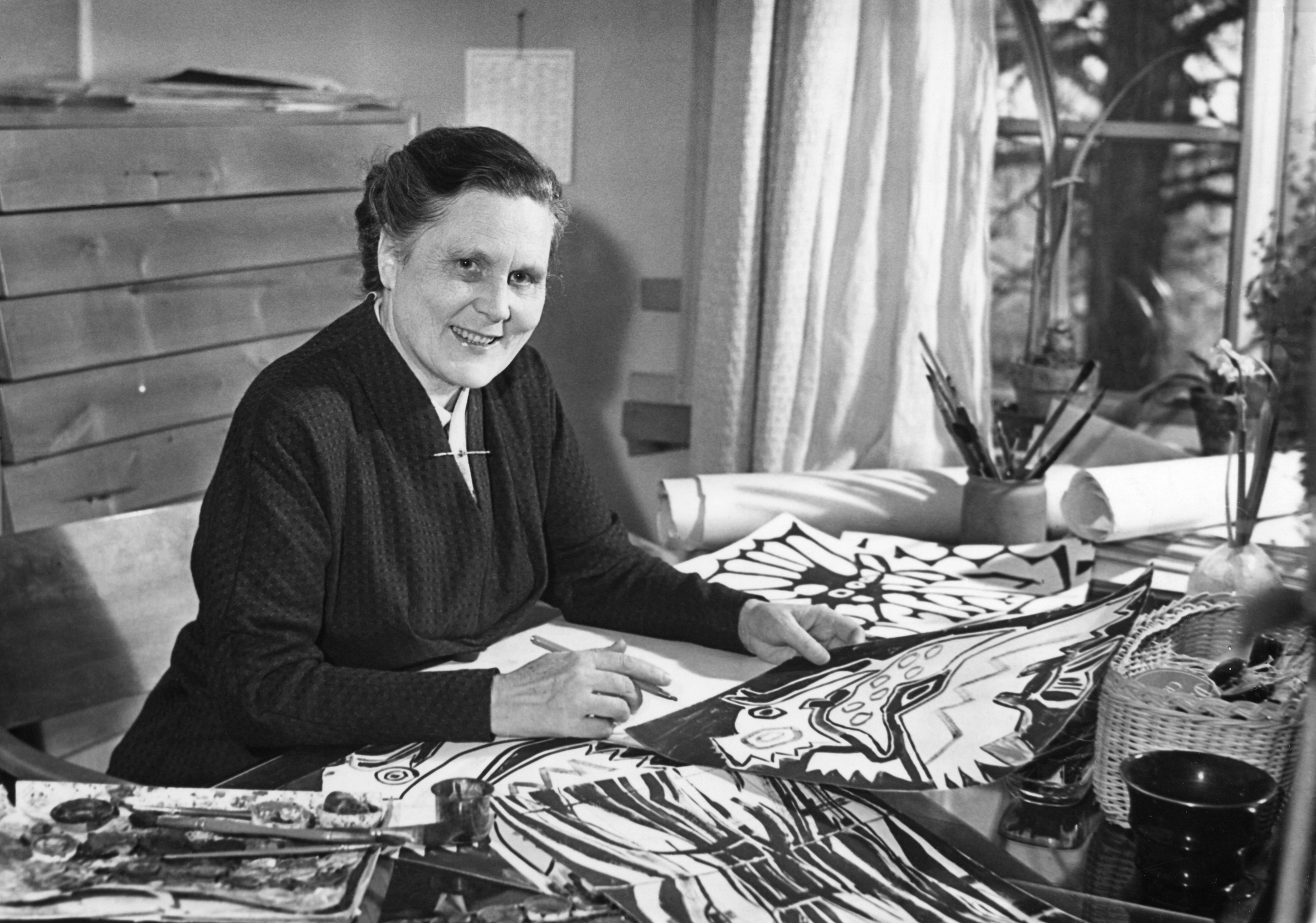 Photograph of the Finnish textile artist Laila Karttunen (1895–1981).